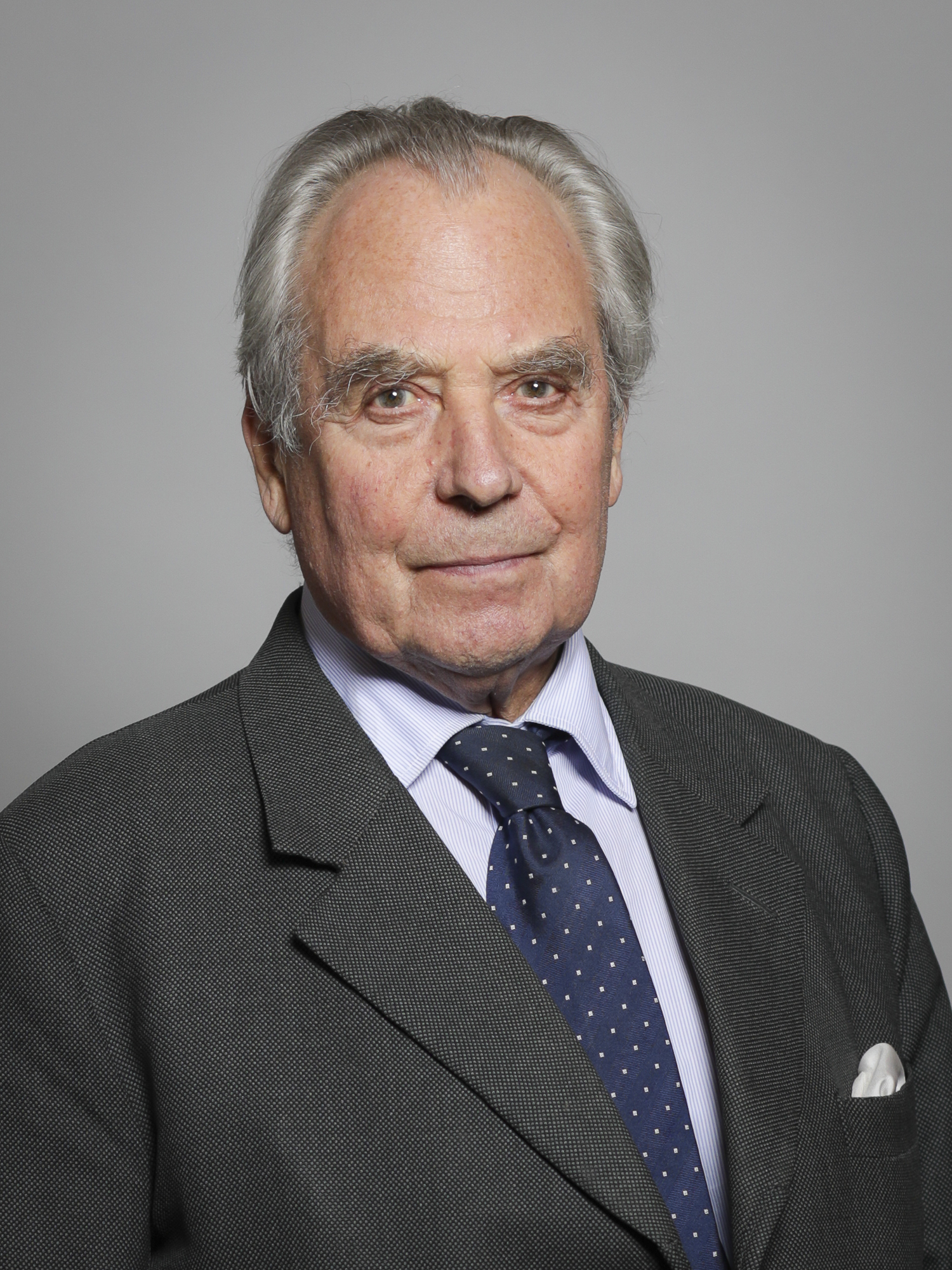 Official portrait of Lord Pearson of Rannoch 3×4 portrait of Lord Pearson of Rannoch